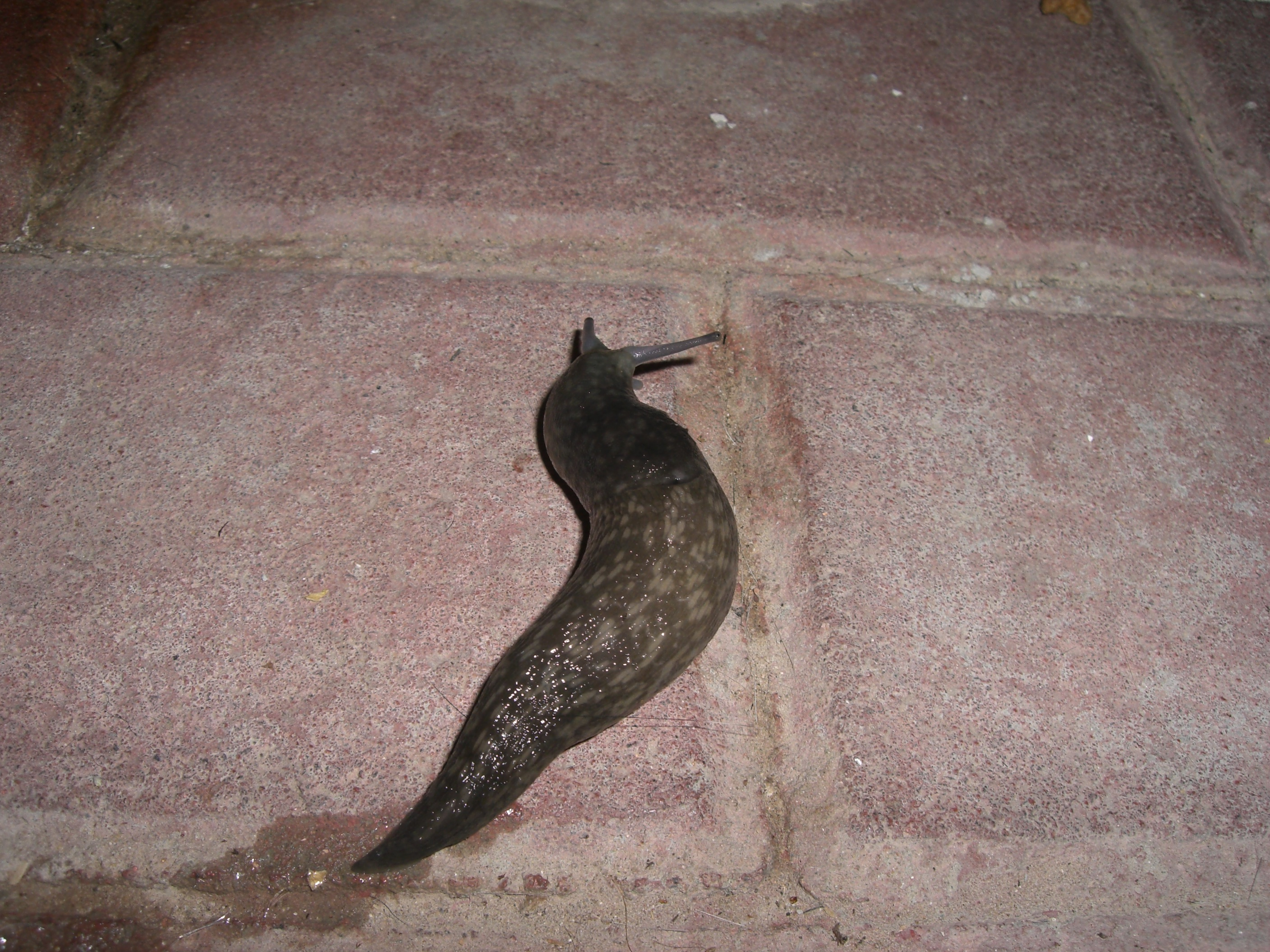 Yellow Slug Limax flavus, Israel, October 2006.